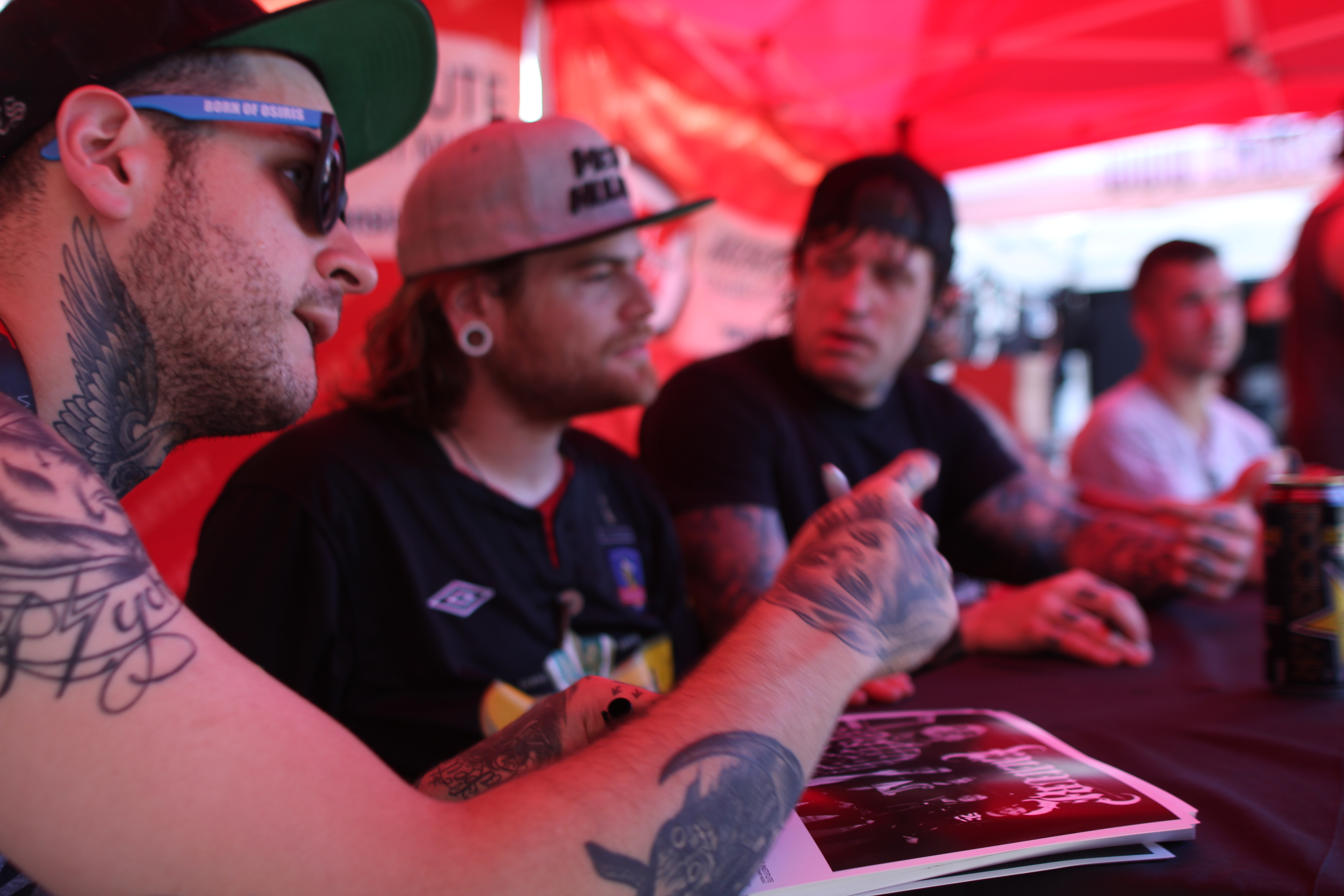 Emmure Signing in Austin Texas on Mayhem Festival